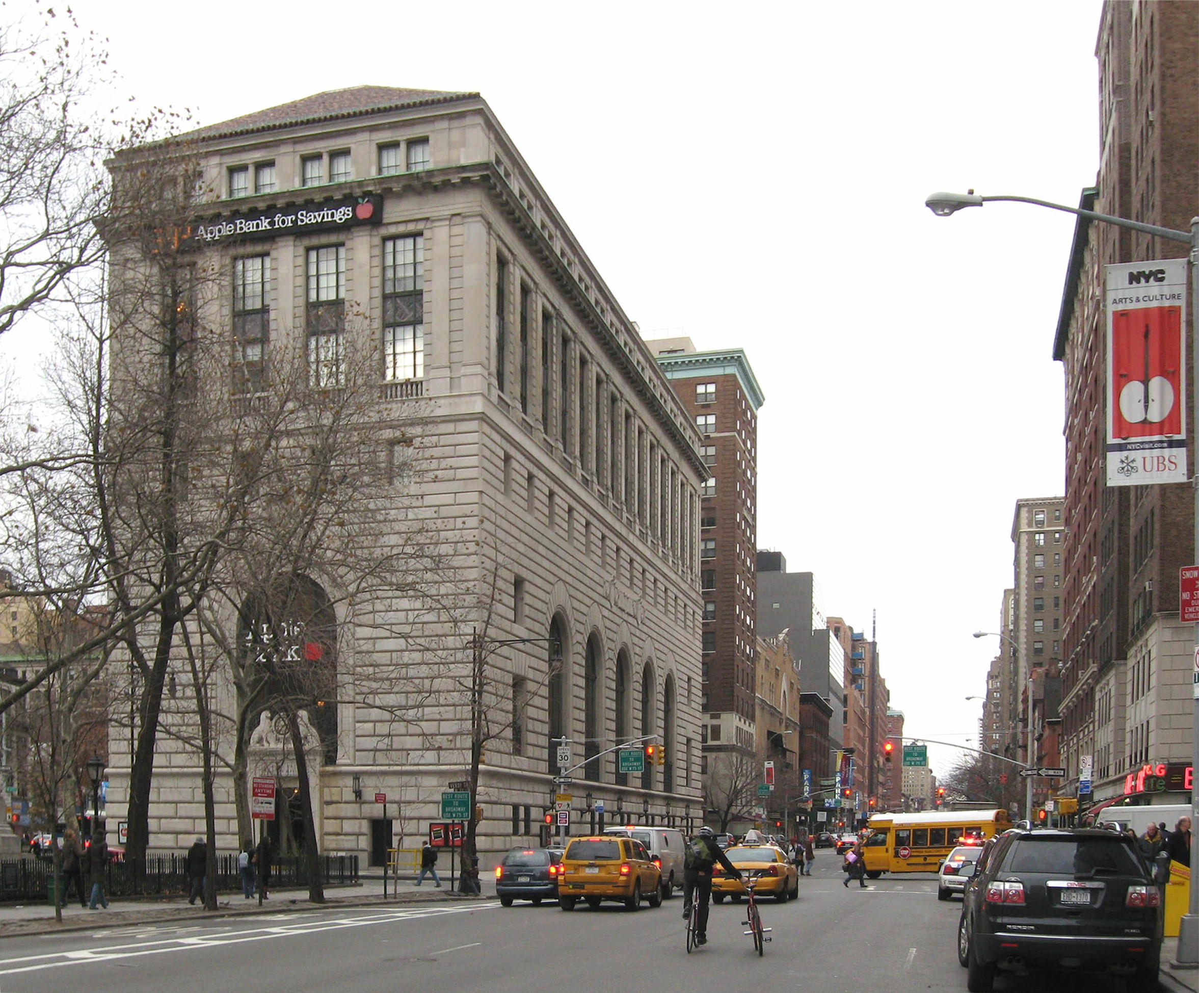 Looking north up Amsterdam Avenue at Apple Bank for Savings, former Central Savings, on a cloudy afternoon. NYCLPC designation 1990, Guidebook map 13. See also File:German Savings Bank W73 jeh.JPG.